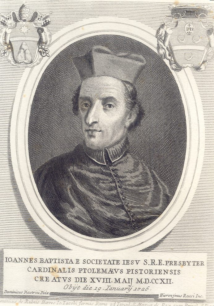 Portrait of Cardinal Giovanni-Battista (John-Baptist) Tolomei.